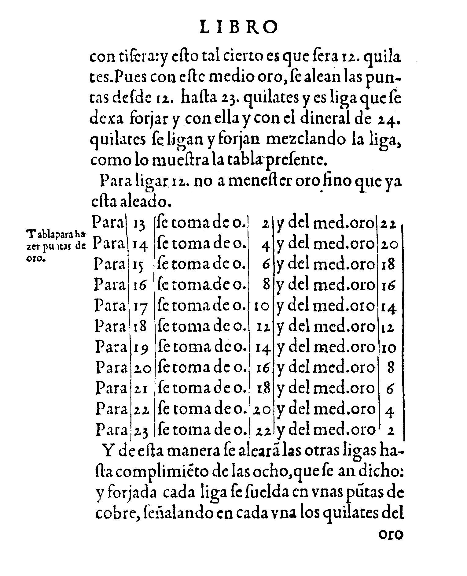 facsimile reproduction of page 36